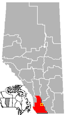 Location of Fort Macleod, Census Division No. 3, Albera